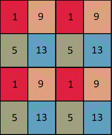 European Wi-Fi channels allow for square frequency reuse patterns that map more cleanly onto typical building layout patterns. As buildings generally act as shielding, it means that co-channel interference is more commonly avoided where they are deployed.